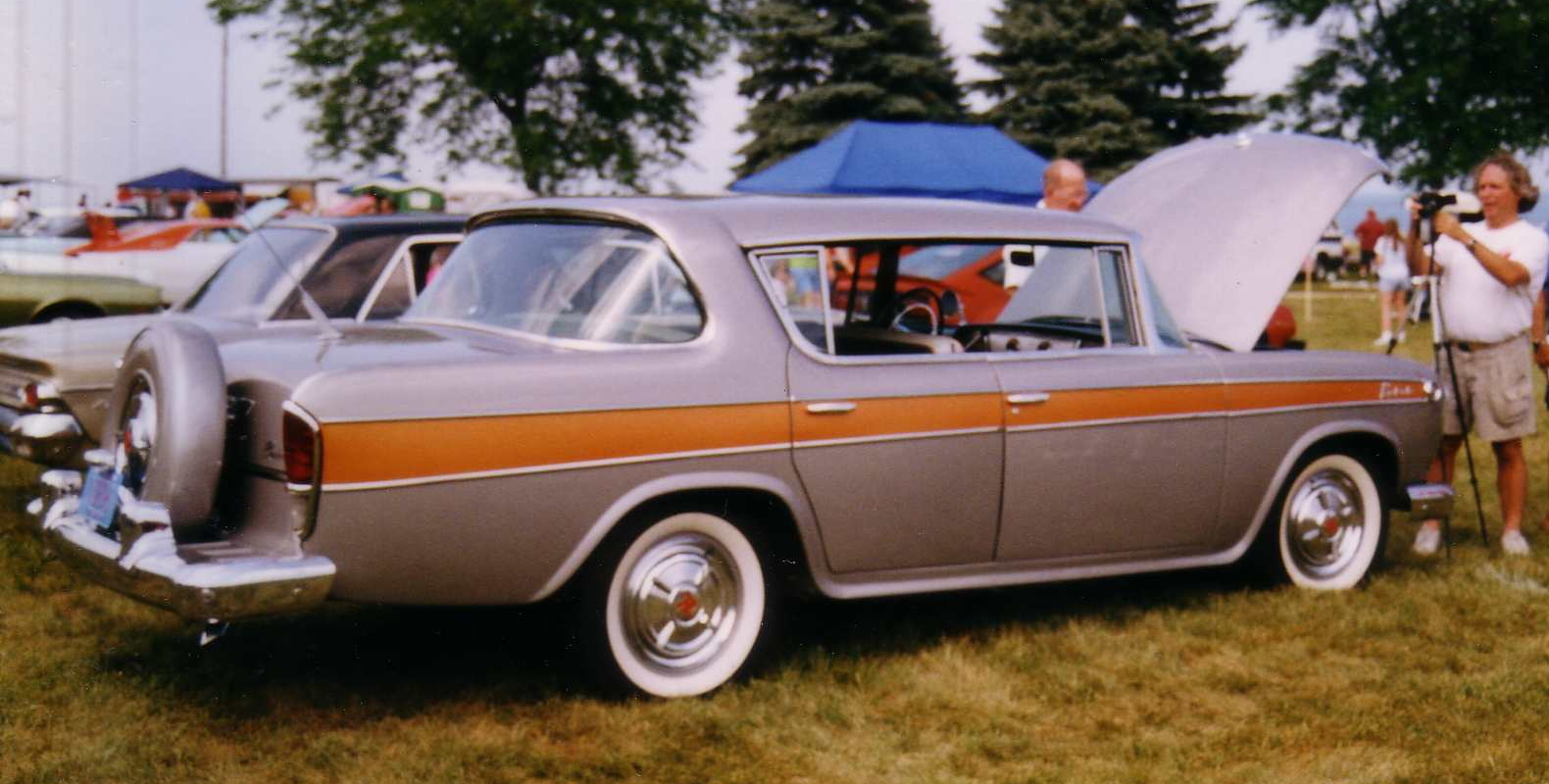 1957 Rambler Rebel 4-door hardtop (pillarless) muscle car by AMC (American Motors Corporation)